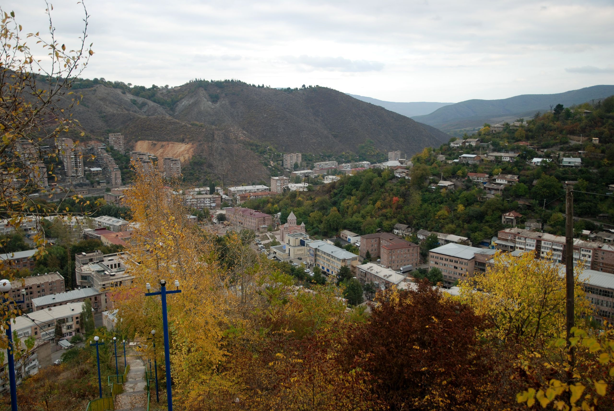 Kapan, from hill west of vachagan river